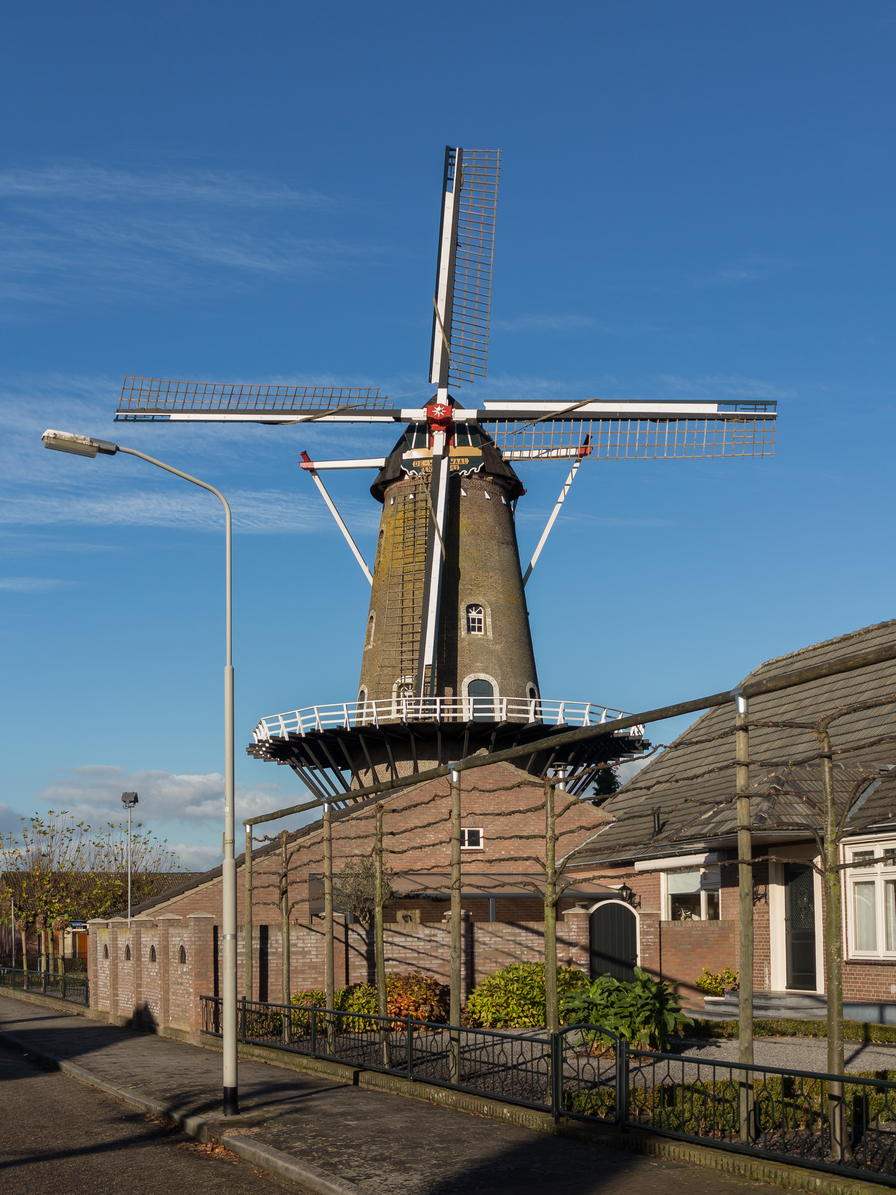 Beneden-Leeuwen, windmill: korenmolen de Wielewaal